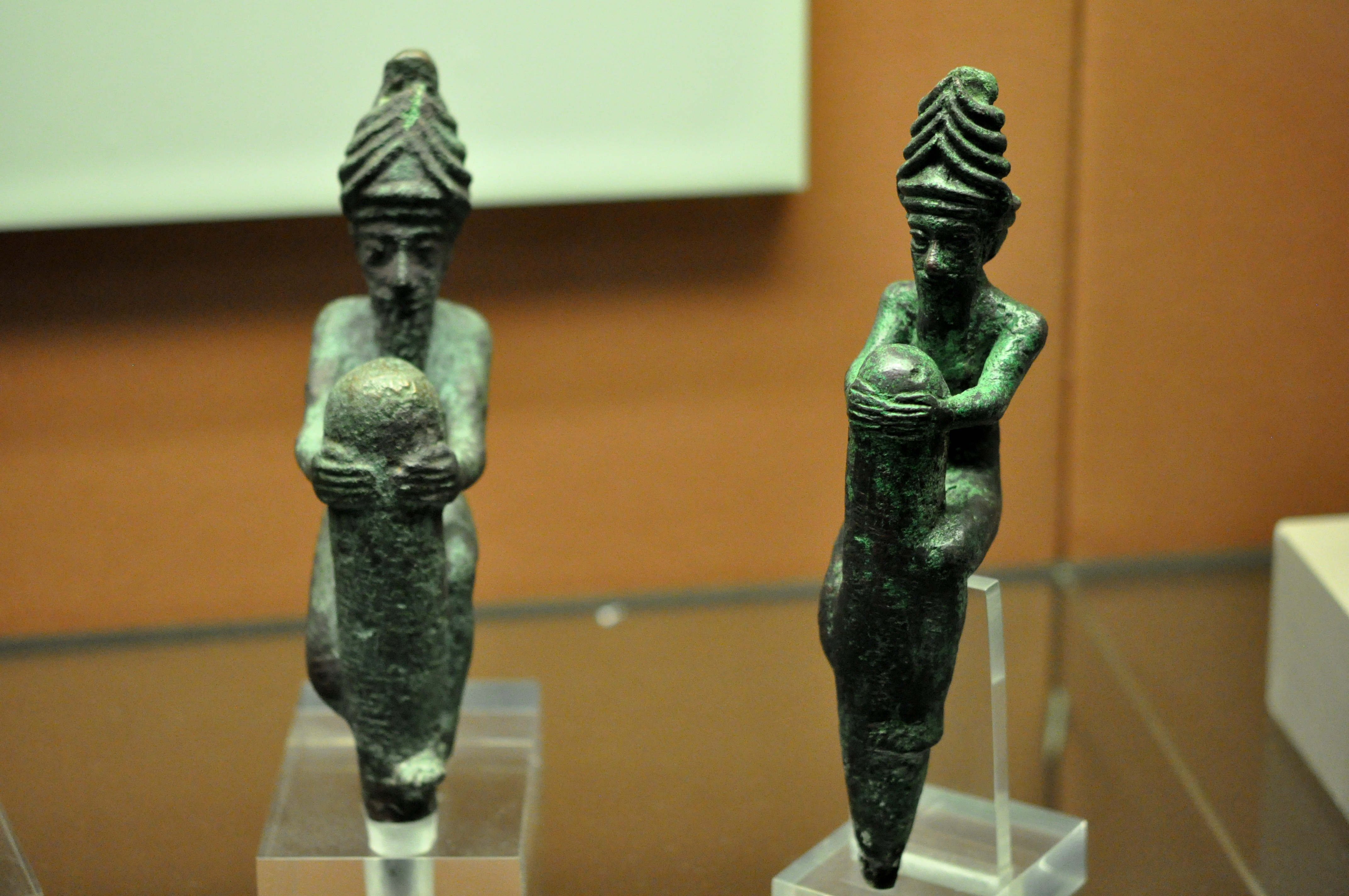 Each peg has a very faint cuneiform inscription of Gudea, the ruler of the city-state of Lagash. Foundation pegs were buried in the foundation of buildings to magically protect them and preserve the builder's name for posterity. In this case, the peg is supported by a god (Mesopotamian gods are usually depicted wearing horned headdresses). Kingdom of Lagash, c. 2130 BCE. Possibly from Tello (ancient Girsu), Temple of Ningirsu, southern Mesopotamia, Iraq. (The British Museum, London)